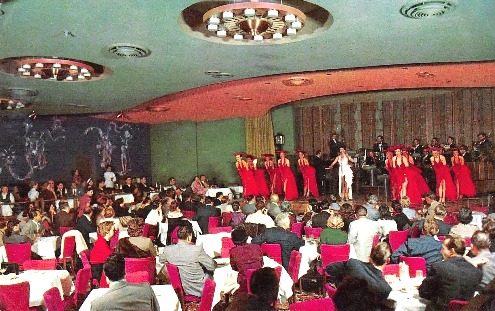 Photo of the Copa Room at the Sands Hotel from a 1966 postcard.